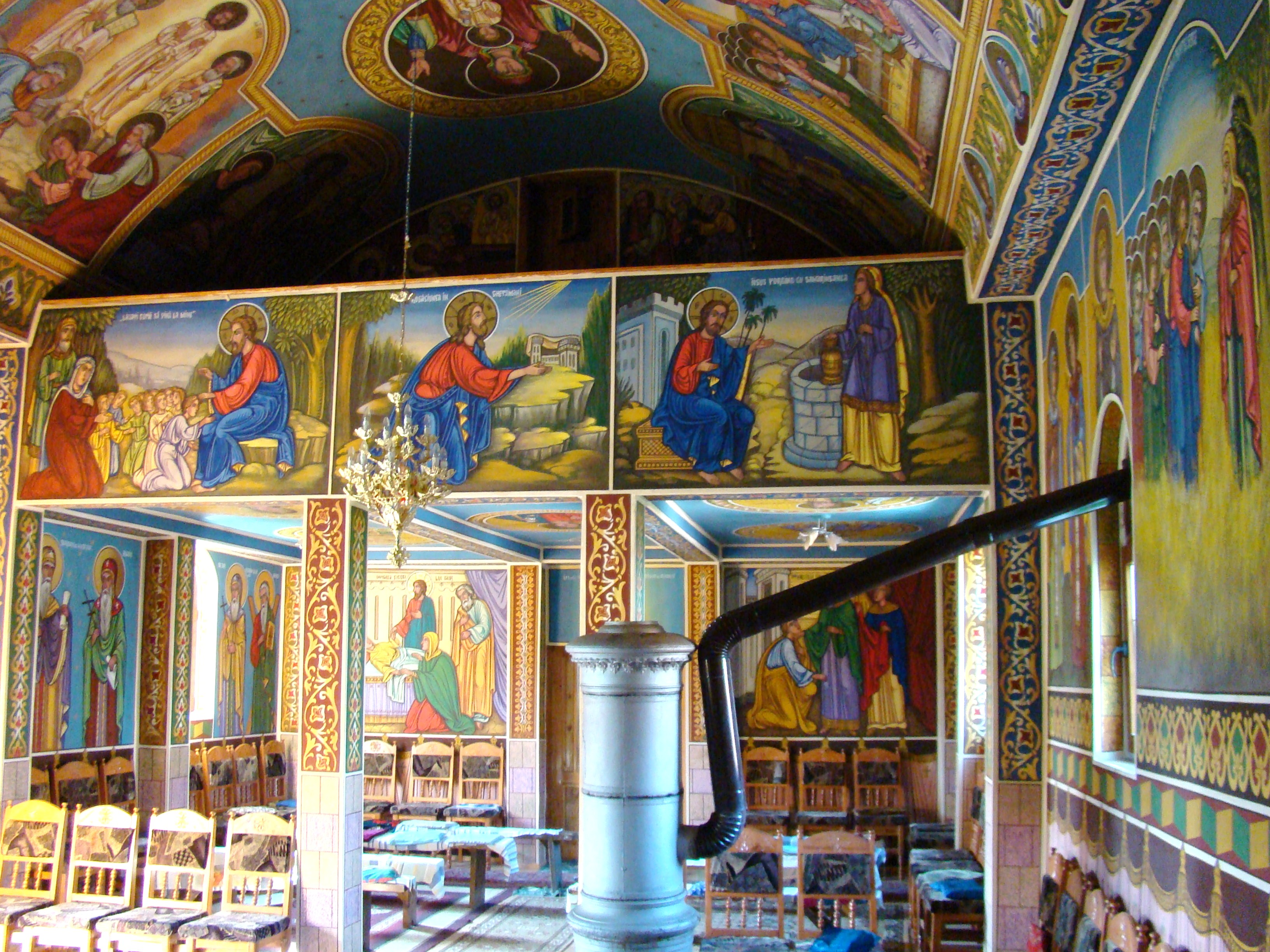 Wooden church in Iosășel, Arad county, Romania